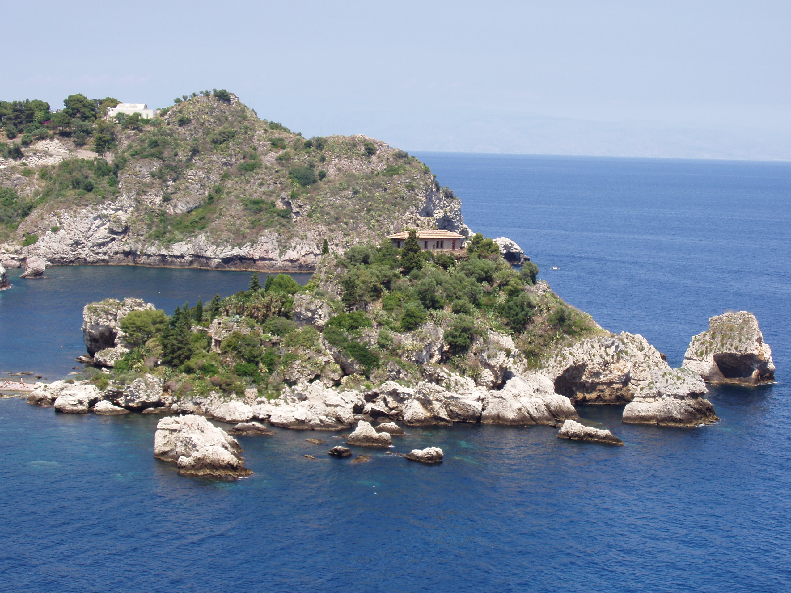 Picture of Isola Bella (Taormina) from the south. Taken by User:Herandar on 06/12/2005.